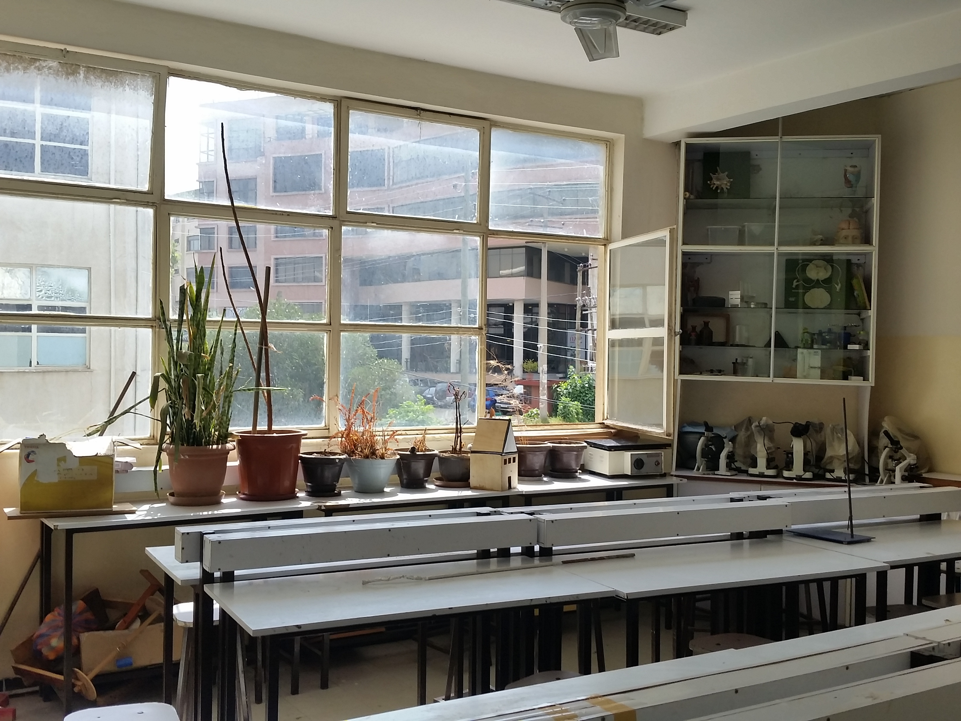 Science Lab at Ethioparents High School, Addis Ababa